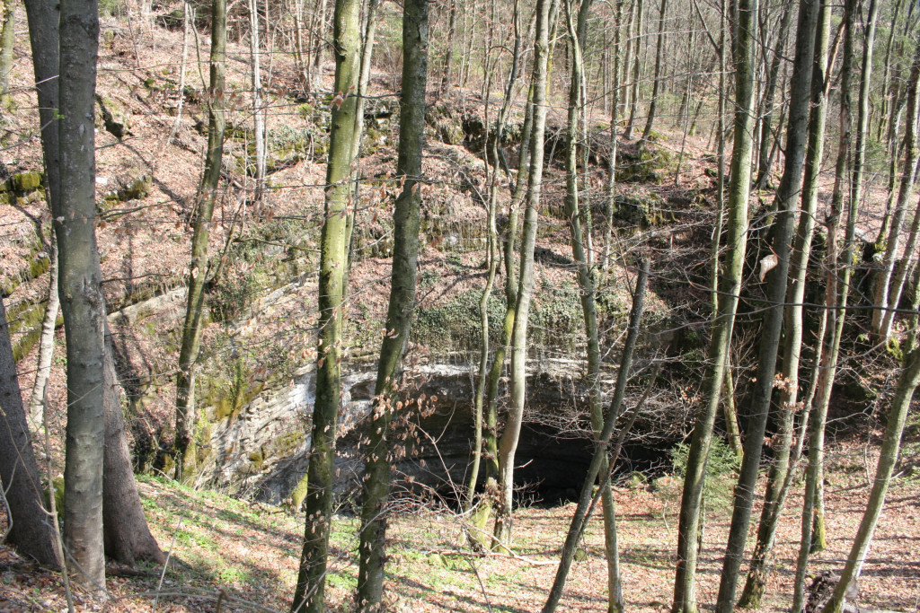 Udornica or collapse doline in slovenian karst on Radensko polje near Grosuplje.